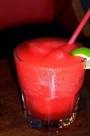 Strawberry margarita